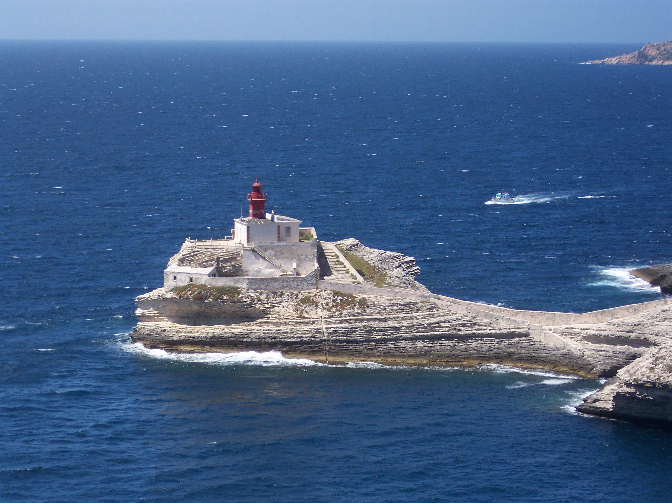 Bonifacio Lighthouse